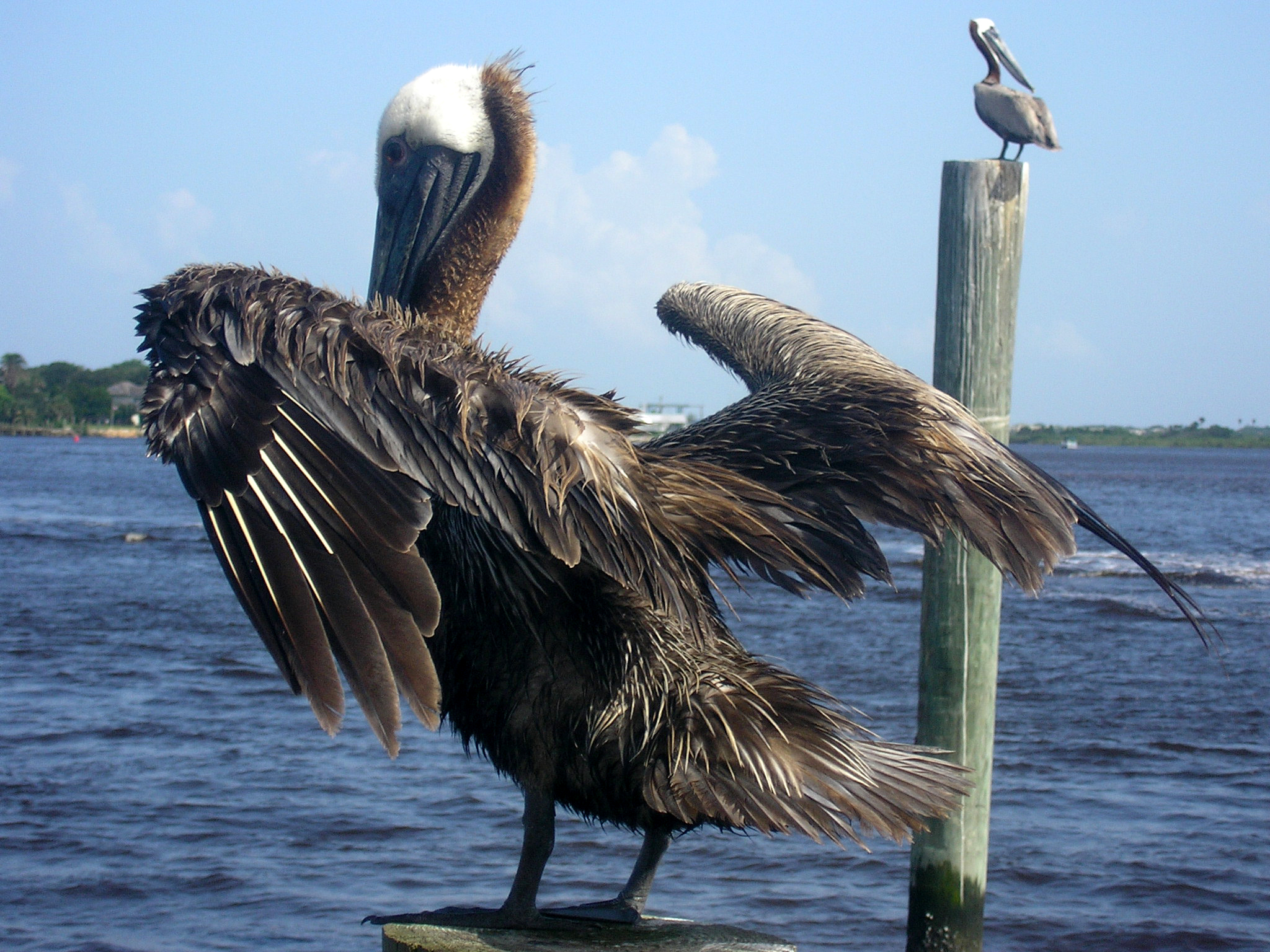 Two brown pelicans rest on wooden posts in the Ponce Inlet harbor near Ponce Inlet, Florida.